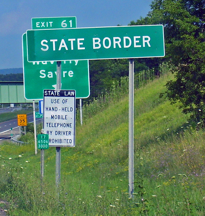 Photographed by Daniel Case 2006-07-31.